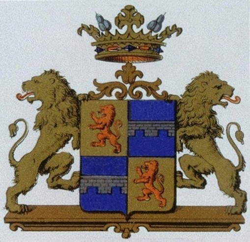 Coat of arms of the Foucauld de Pontbriant family. Motto: "Never back".